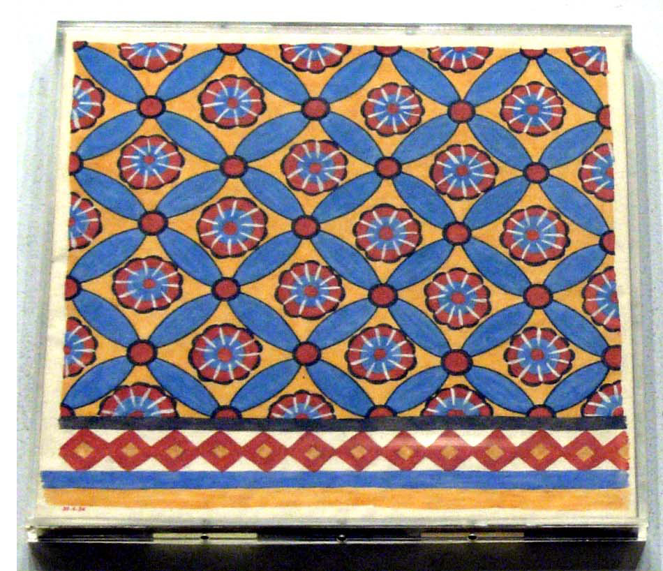 Facsimile, Amenemhat Surer (TT 48), ceiling (enhanced)